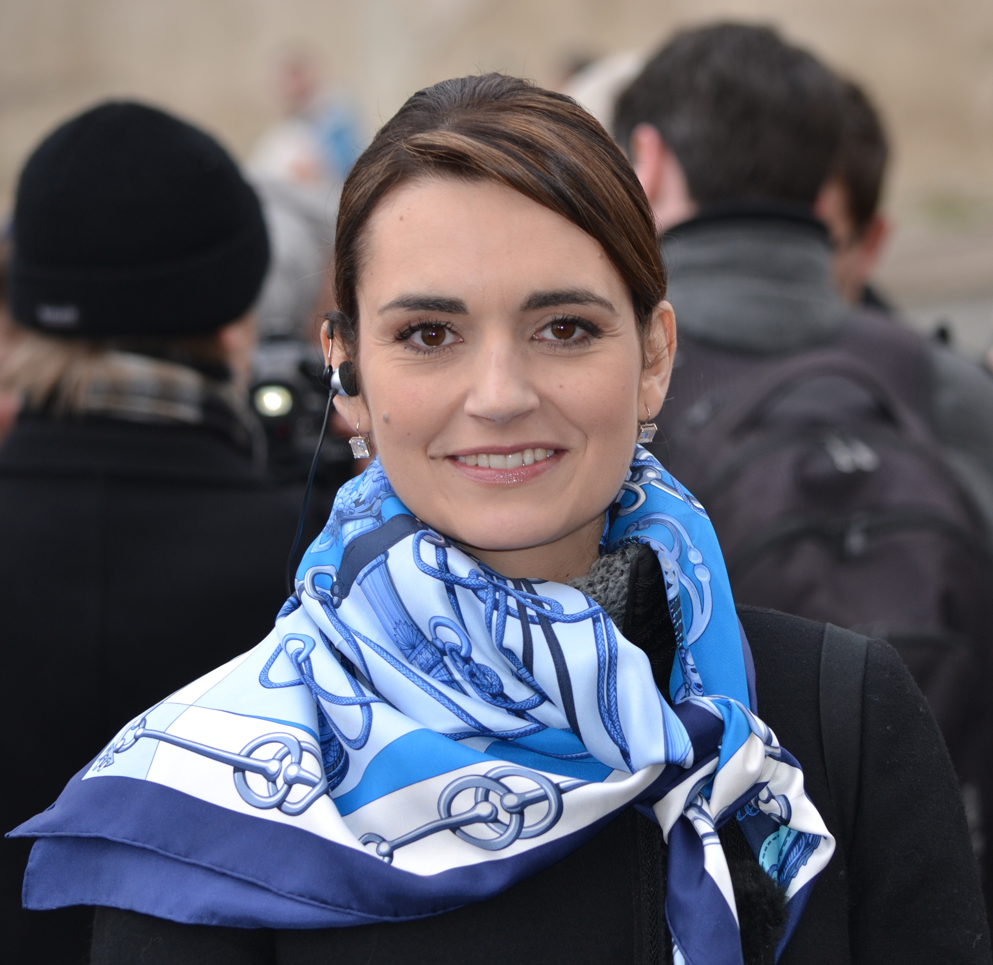 Daniela Písařovicová, Czech TV reporter and journalist